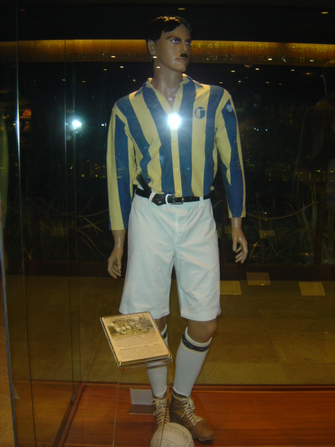 A picture taken at the Fenerbahçe Museum (it's free to take pictures here). It's an old outfit used in the early years of Fenerbahçe.